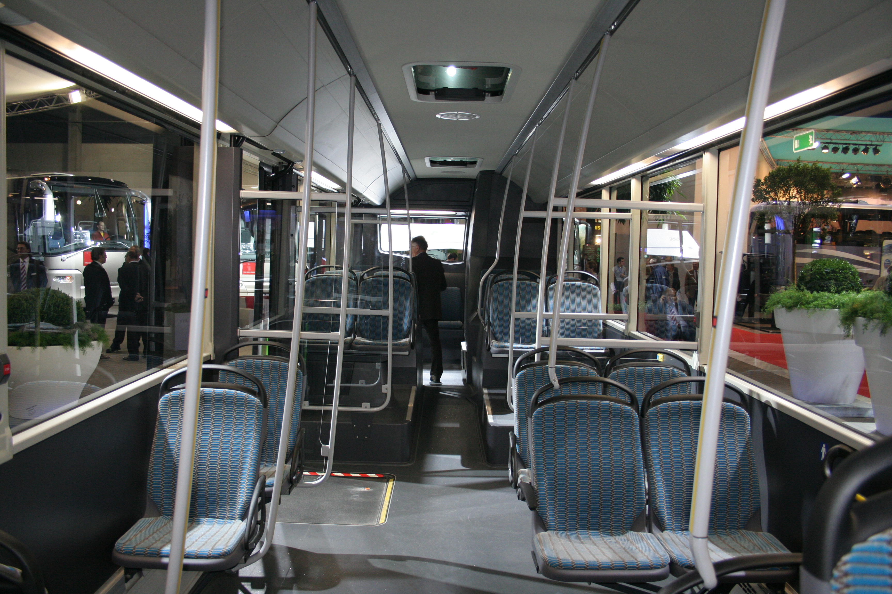 VDL Berkhof Citea CLF 120 bus prototype (built 2007) in Kortrijk, Belgium. Busworld 2007.